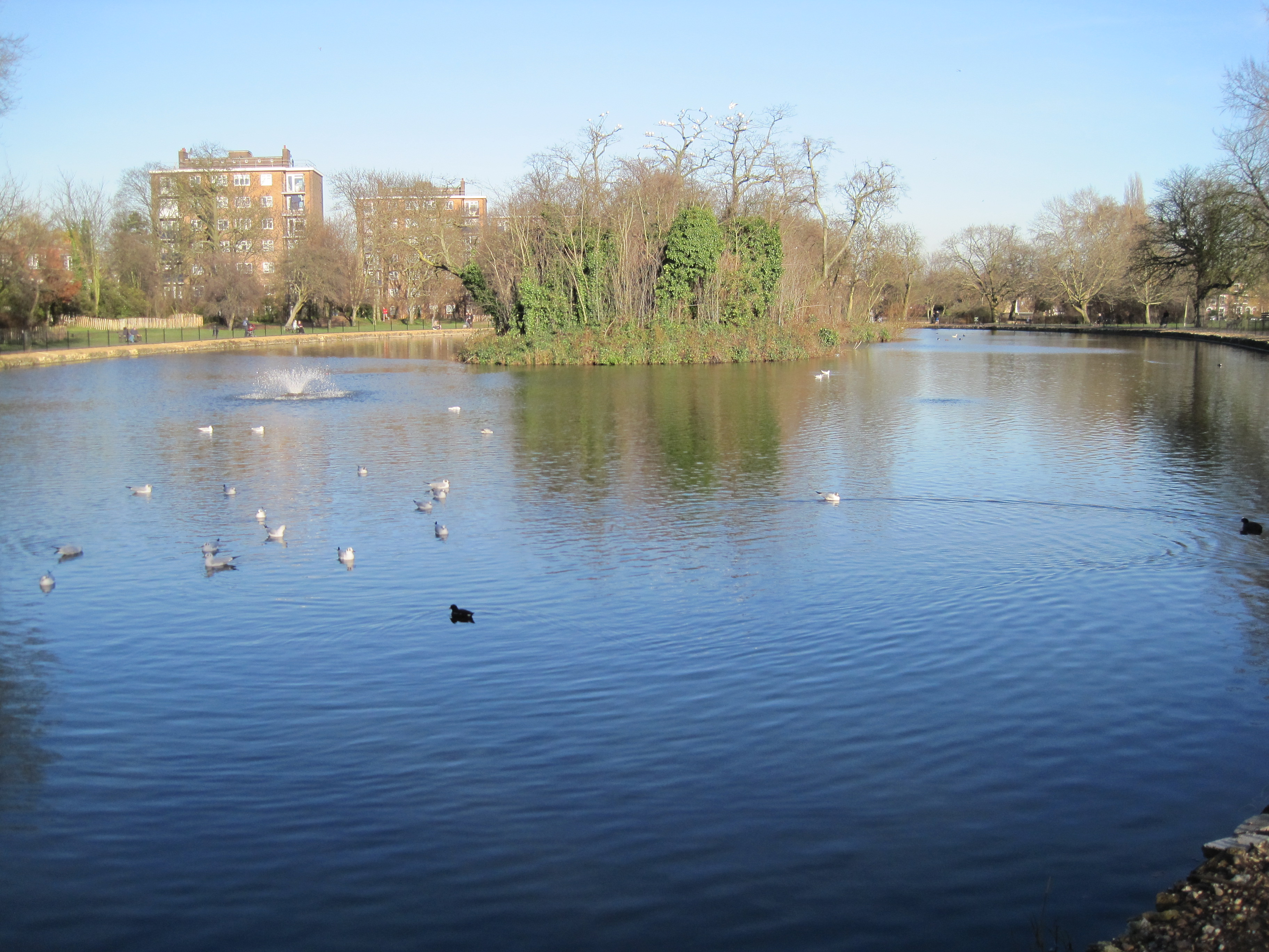 Clissold Park, Hackney, London